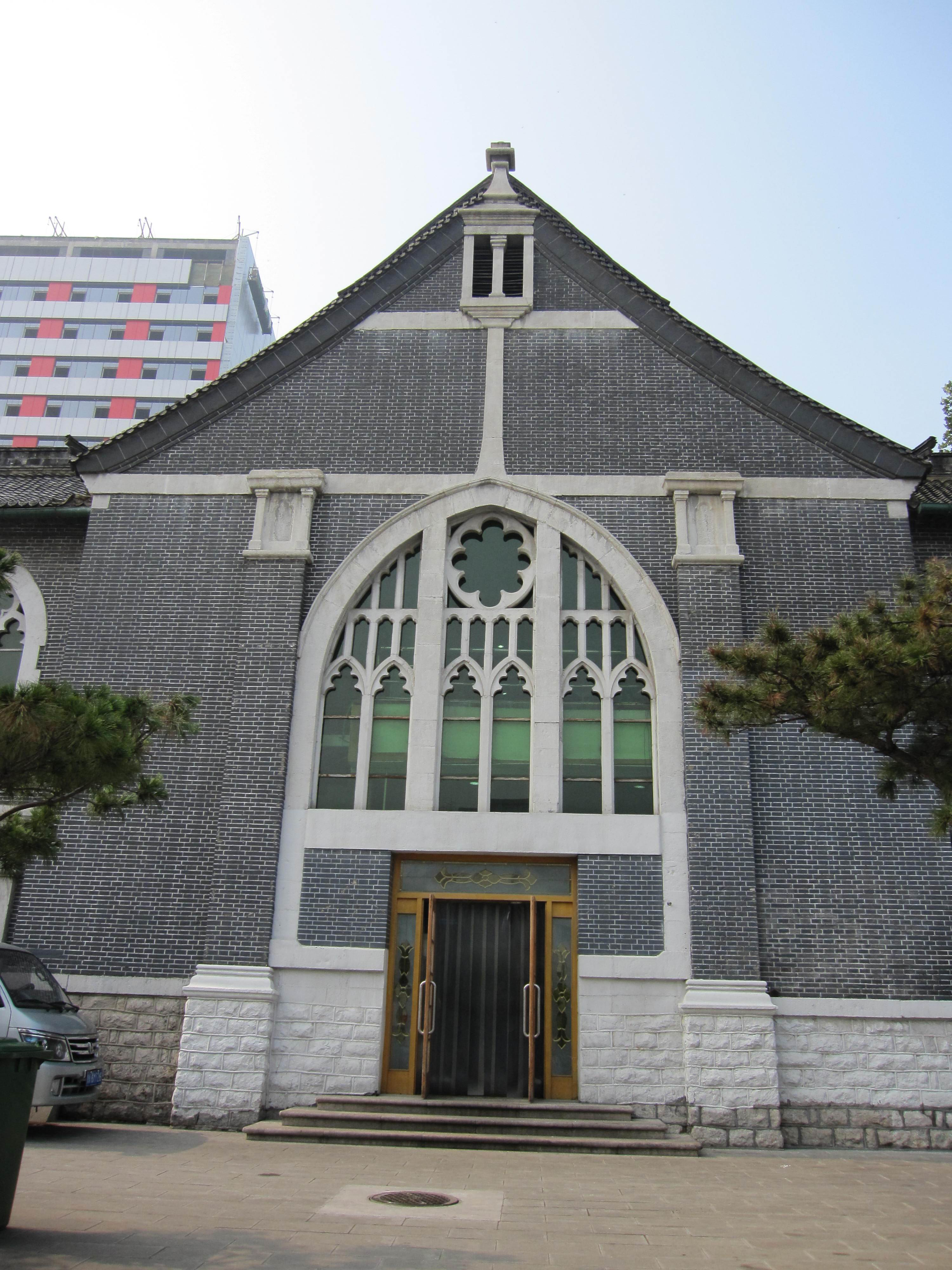 Former Nanguan Christian Church of Jinan,now in Cheeloo Hospital.